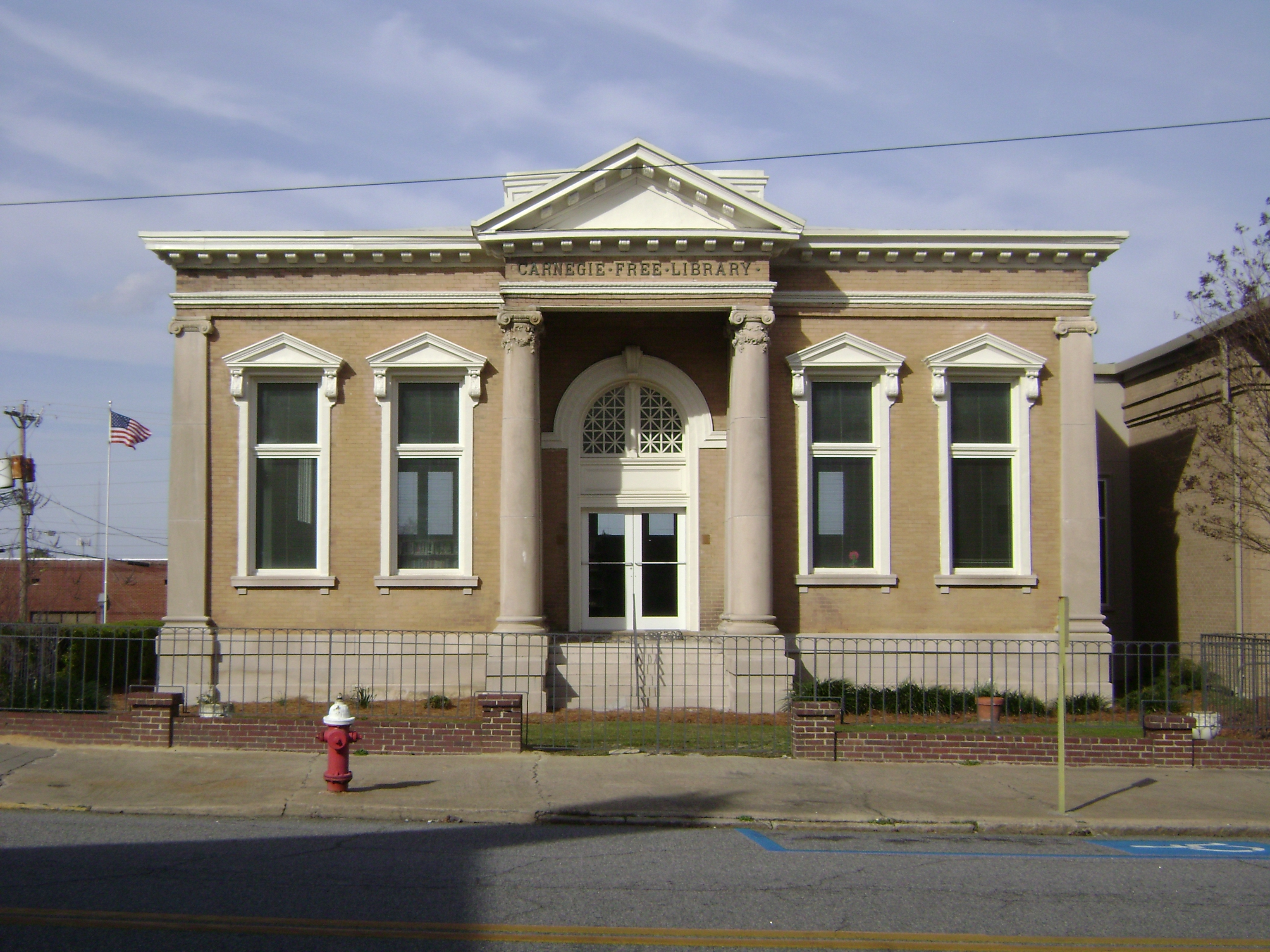 Carnegie Library, 115 11th Ave. E., Cordele, Crisp County, Georgia